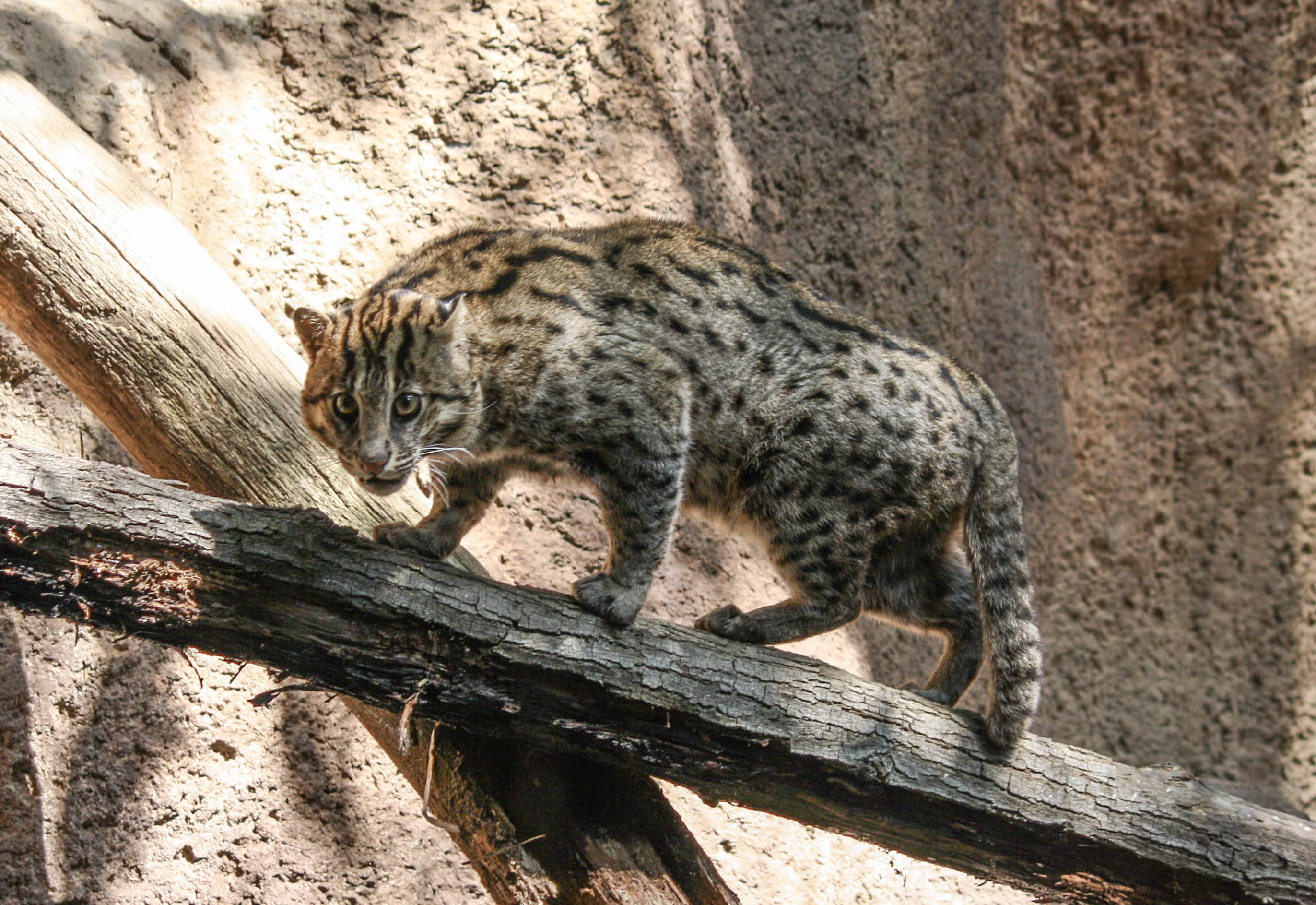 Fishing cat (Prionailurus viverrinus) in San Diego Zoo, California